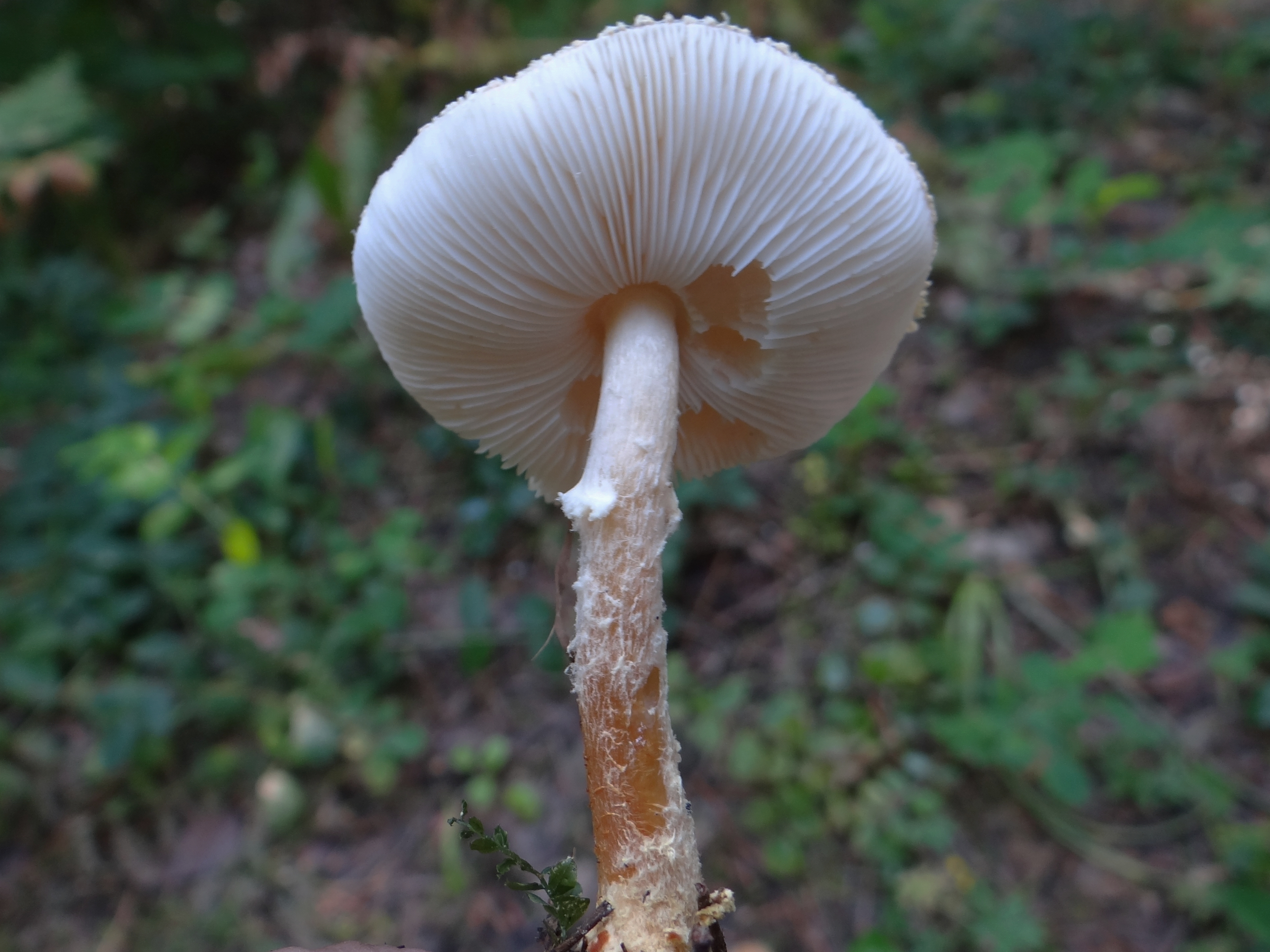 Lepiota clypeolaria (location:Poland, Beskid Wyspowy, Kamionna)